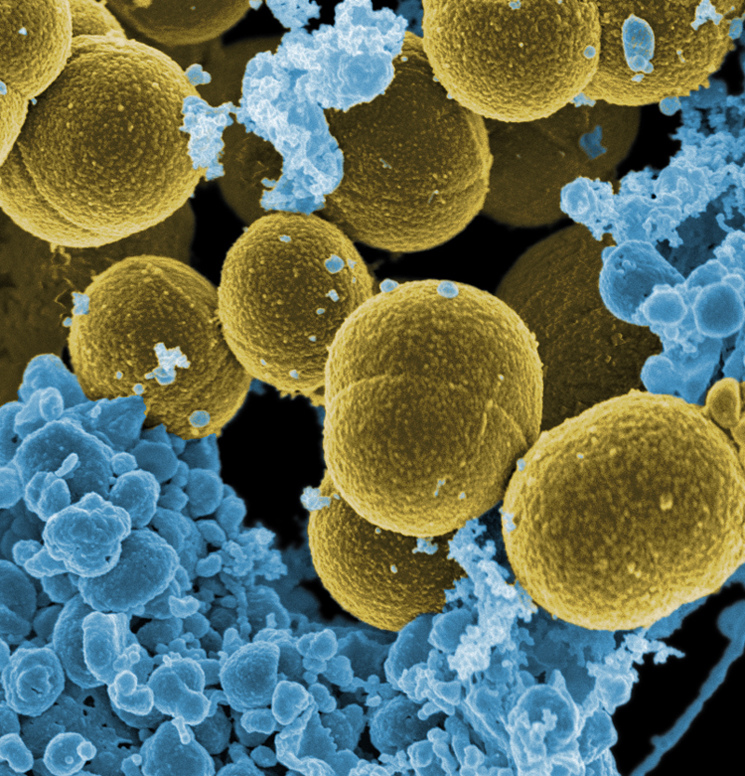 S. aureus bacteria escaping destruction by human white blood cells.